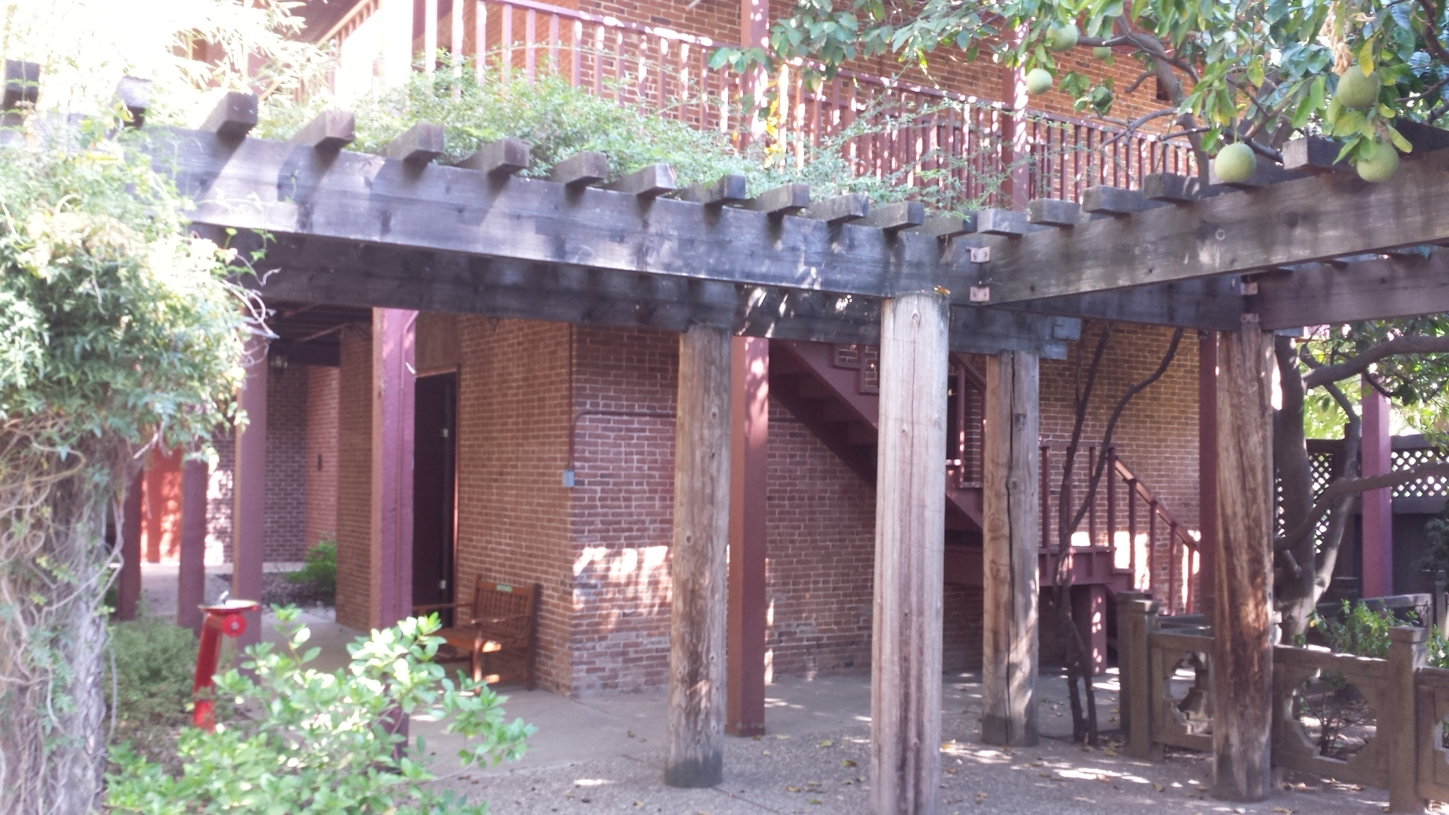 William Collins, photo